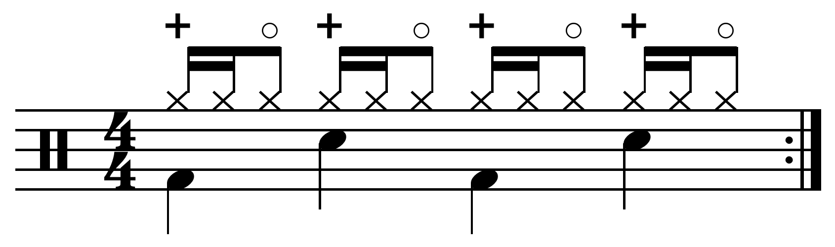 Four-four pattern with open (o) and closed (+) hi-hat (see: percussion notation).